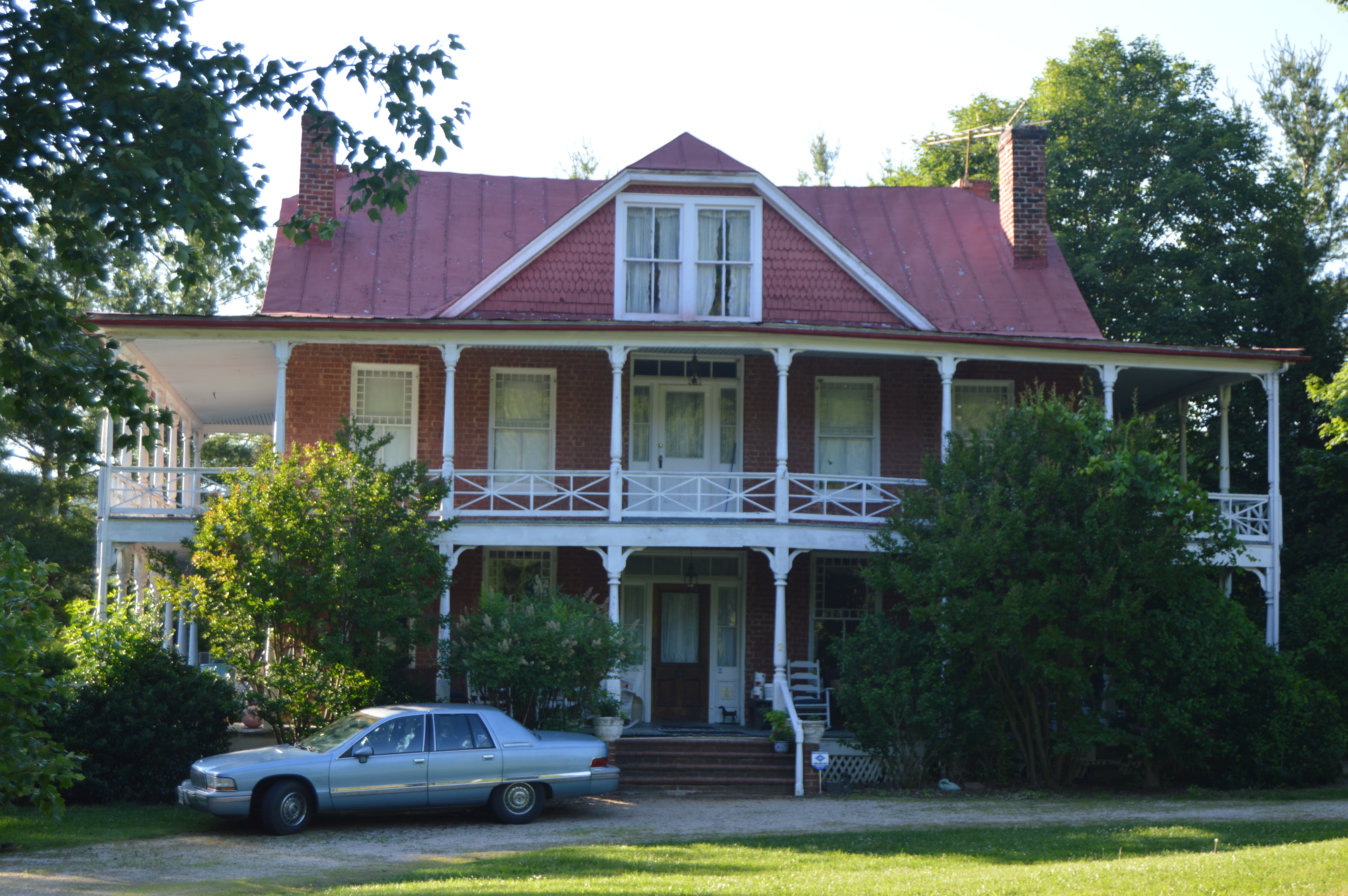 Front of the Rockbridge Inn, located on Herring Hall Road north of Natural Bridge in Rockbridge County, Virginia, United States. Built in 1823, it is listed on the National Register of Historic Places.